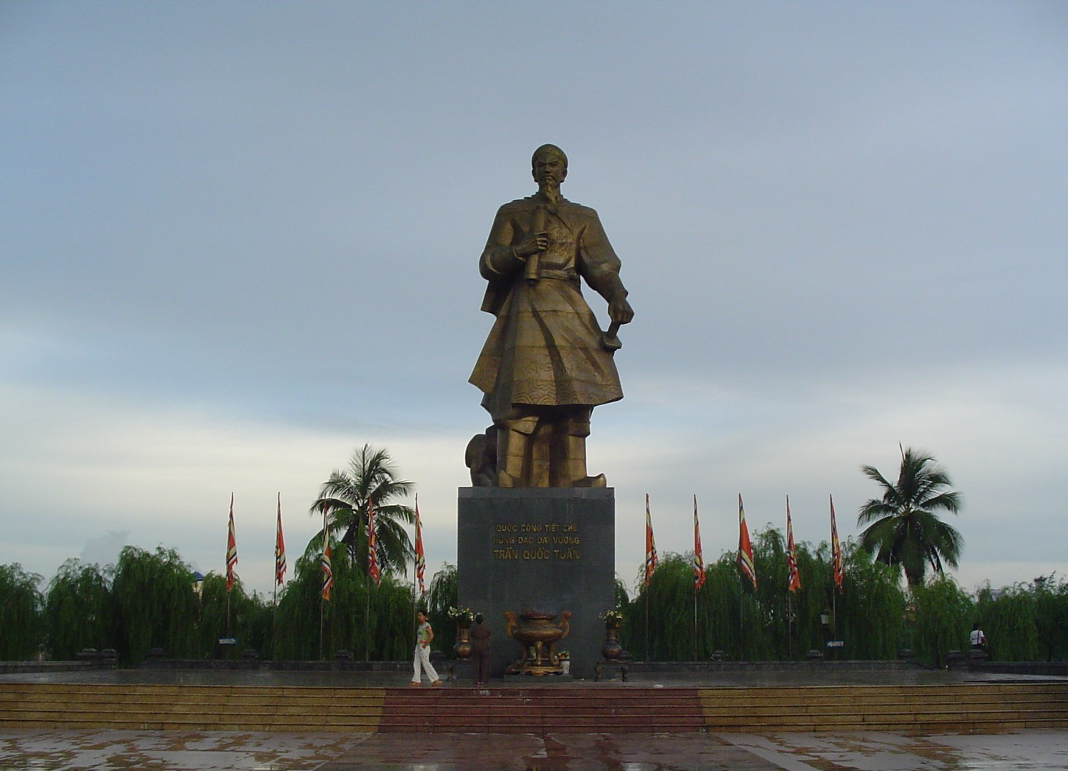 Tran Hung Dao statue in Nam Dinh City of Vietnam